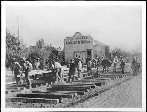 Los Angeles and San Gabriel Valley Railroad 1885, South Pasadena